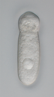 septate gregarine, live specimen